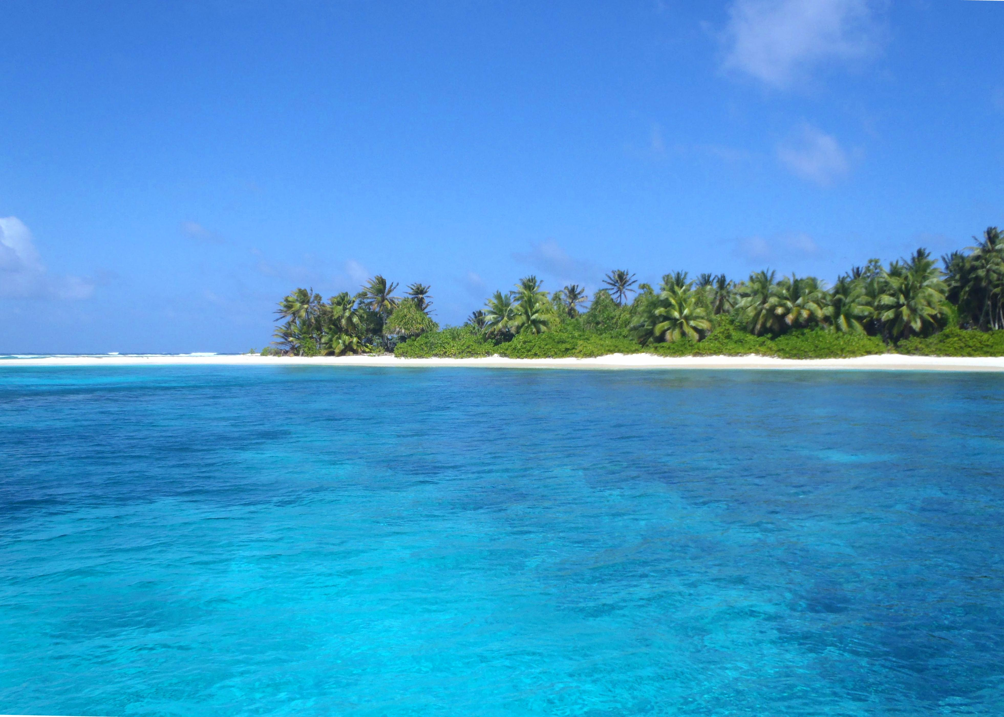 The small size and physical isolation of the Marshall Islands pose a number of development challenges. These include very limited land mass on most atolls, population growth leading to overcrowding, limited progress with economic reforms and high costs of service delivery to dispersed populations. Providing reliable electricity across the country is also challenging and expensive, but crucial for the country’s future. With AusAID’s support, the Marshalls Energy Company is installing prepay metres for households on Majuro to assist customers in budgeting their electricity usage.